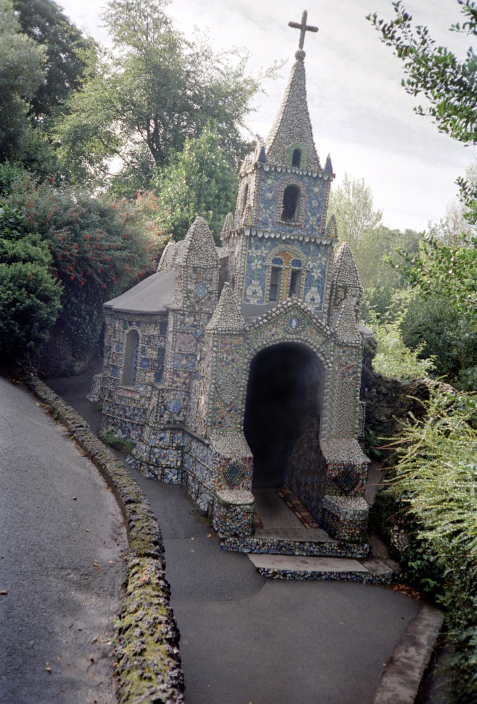 The "little chapel". Photo was altered to remove people standing in the entrance.